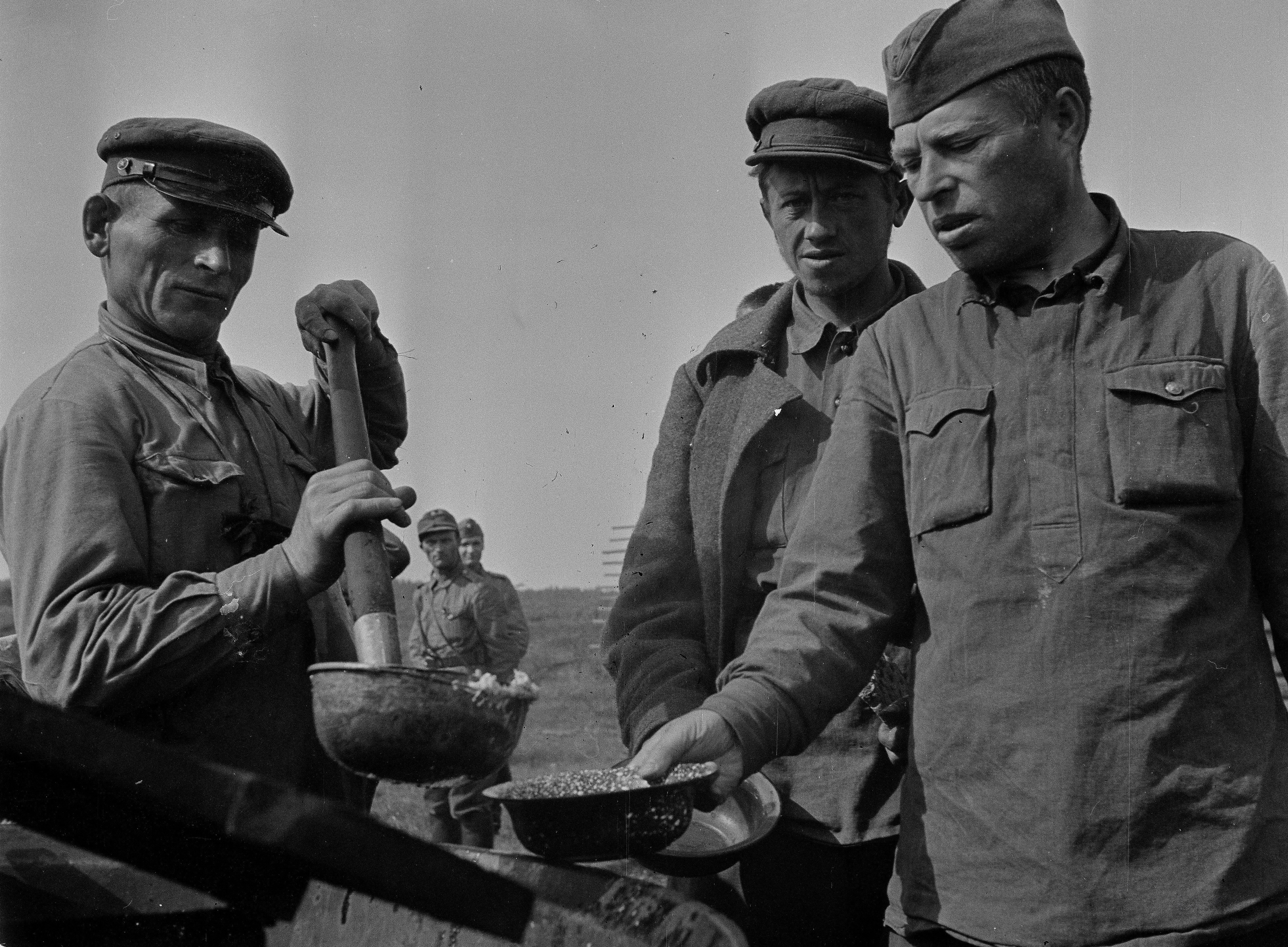 Red Army Staff Lieutenant and Lieutenant in a soup line in Muujärvi camp on the Rukajärvi/Rugozero road in the Continuation War.